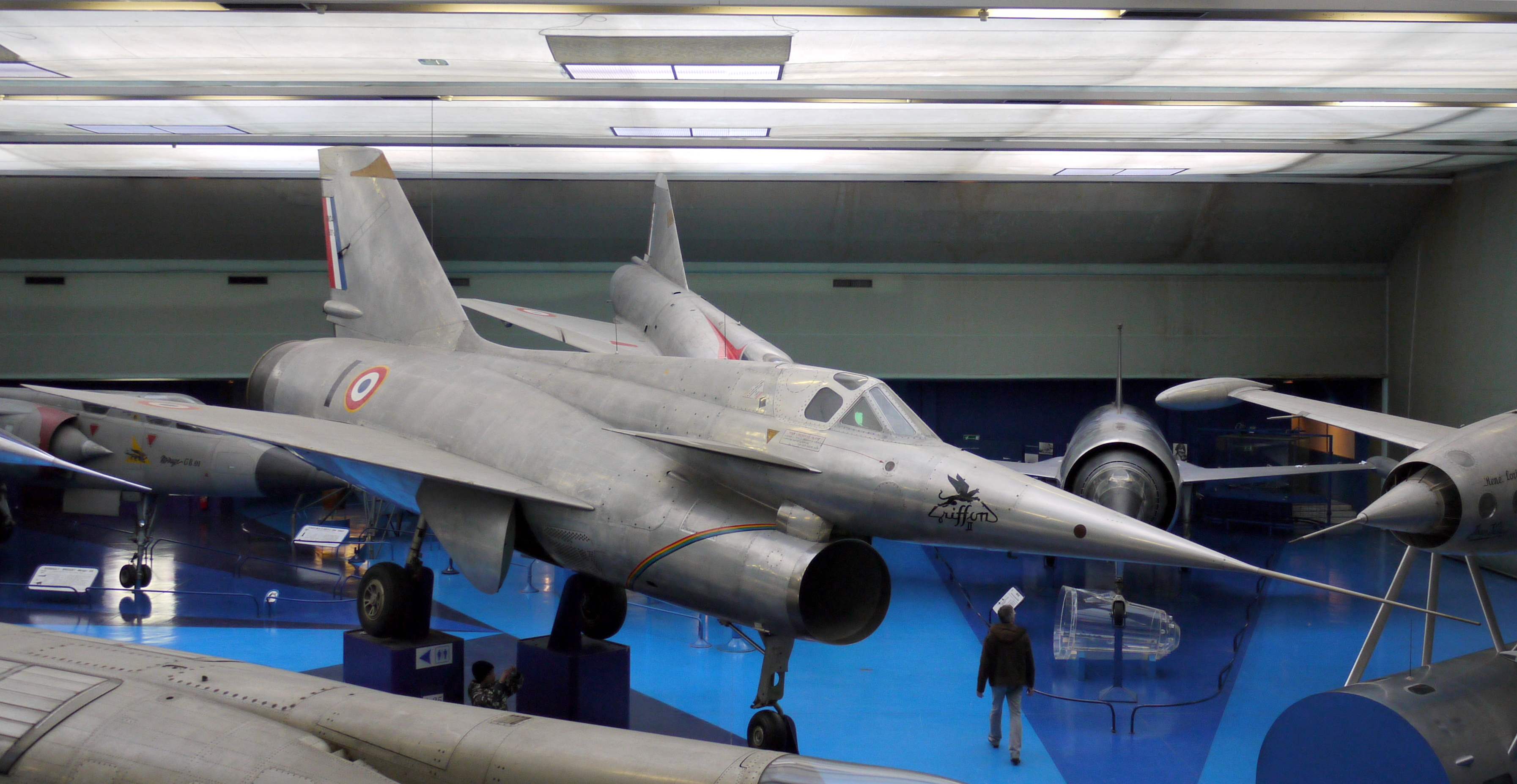 Ramjet-powered fighter aircraft Nord 1500 Griffon II prototype (1957), Museum of Air and Space Paris, Le Bourget (France) Nord 1500 Griffon II